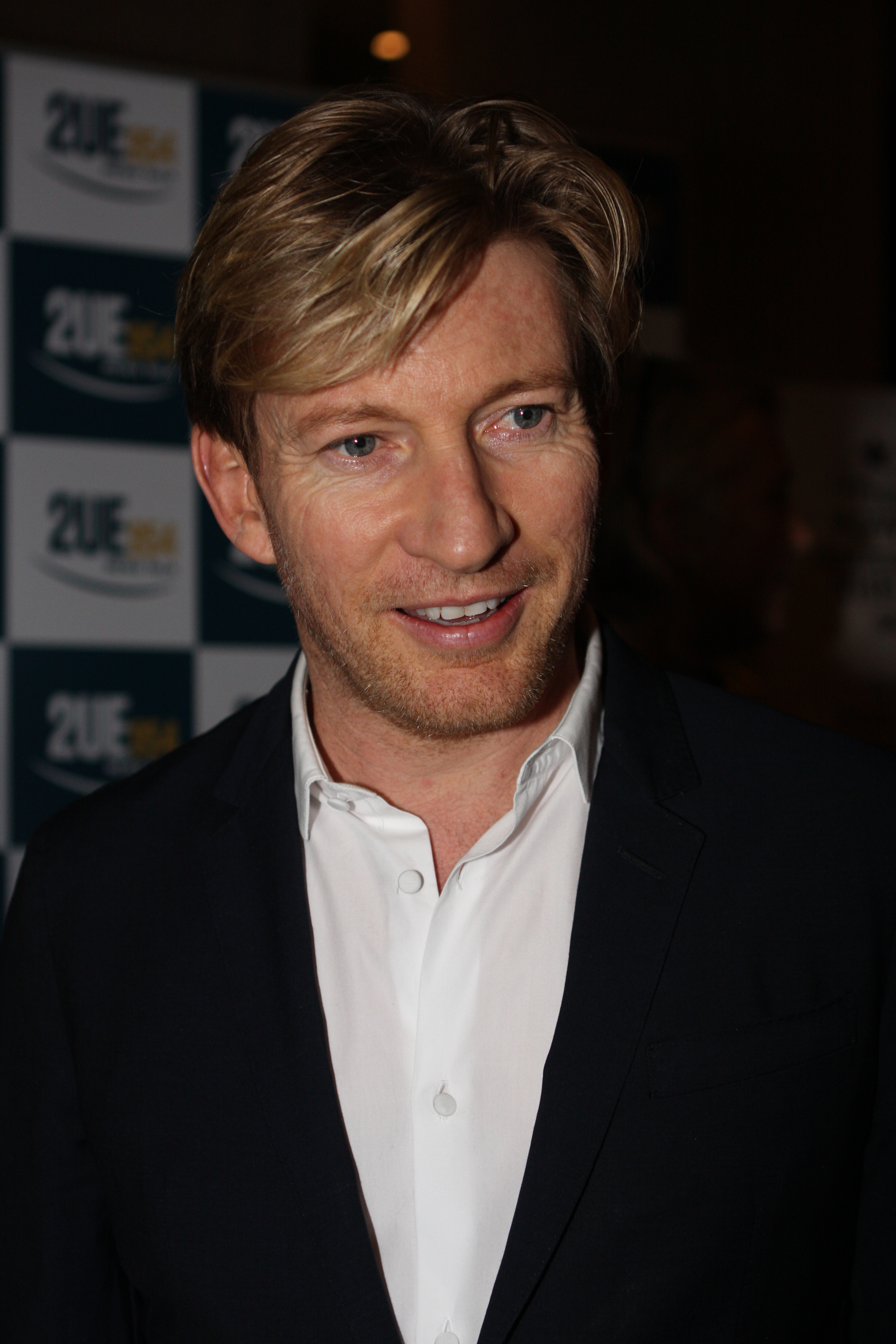 Oranges and Sunshine Premiere David Wenham